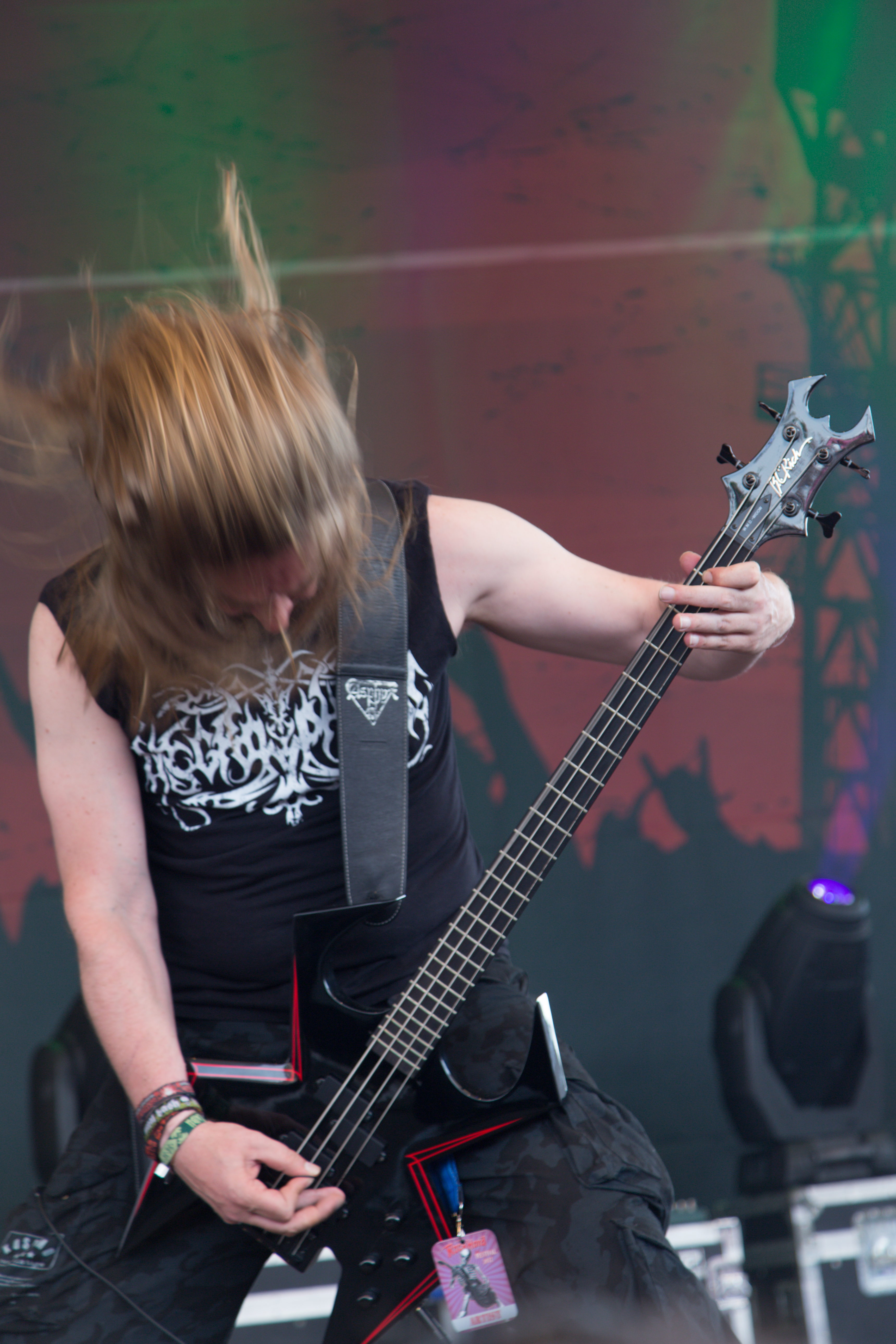 Asphyx performing live at Rock Hard Festival 2017, Gelsenkirchen, Germany